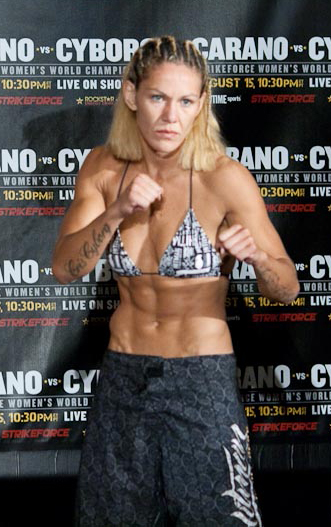 Mixed martial arts fighter Cristiane "Cyborg" Santos, at the weigh-in before the Strikeforce: Carano vs. Cyborg event.